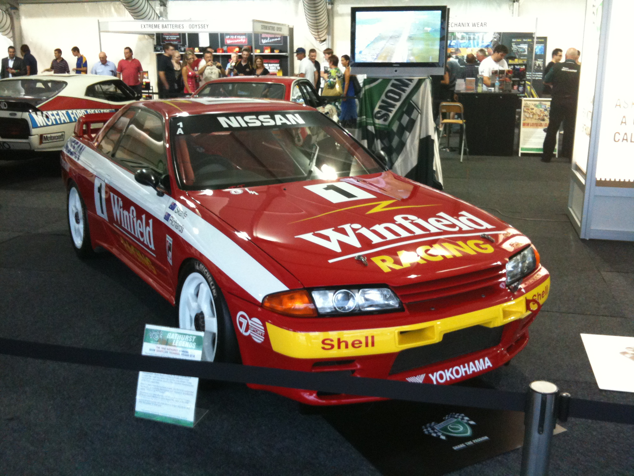 1992 Nissan R32 Skyline GT-R Group A. This is the car driven by Mark Skaife and Jim Richards to outright victory in the 1992 Tooheys 1000 race, held at the Mount Panorama Circuit at Bathurst New South Wales. Taken at the Top Gear Live show at Acer Arena, in the Olympic Precinct at Homebush in Sydney.